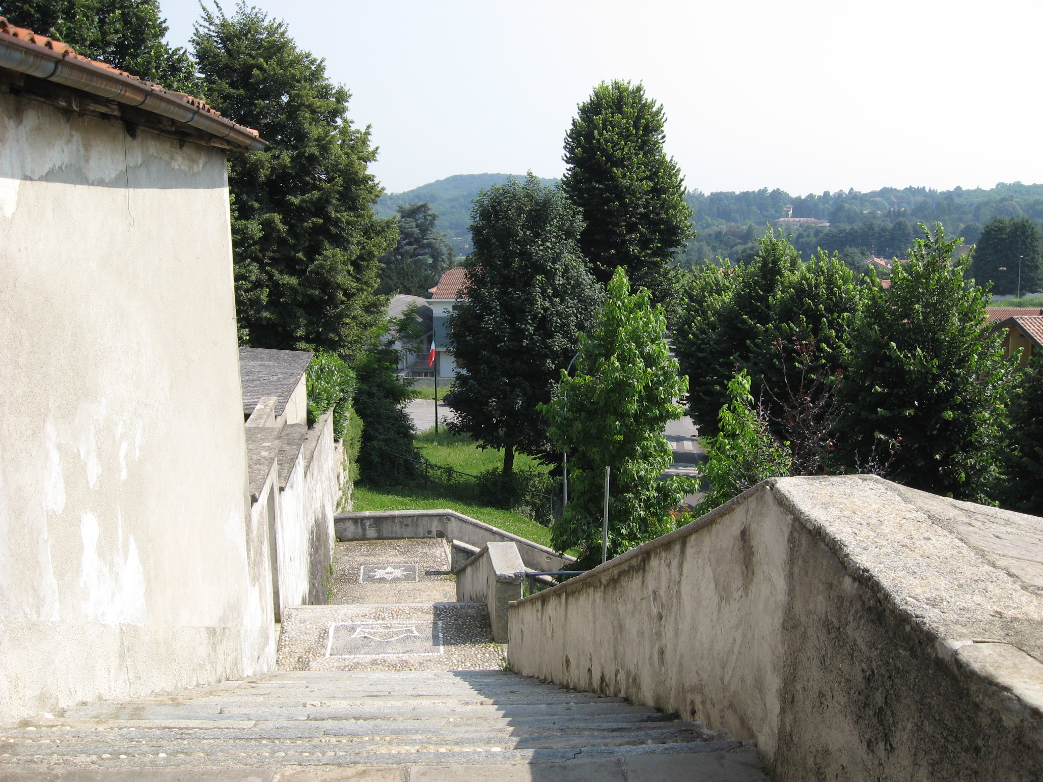 Staircase of the "Chiesa dei Santi Marcellino e Pietro" in Imbersago, Italy